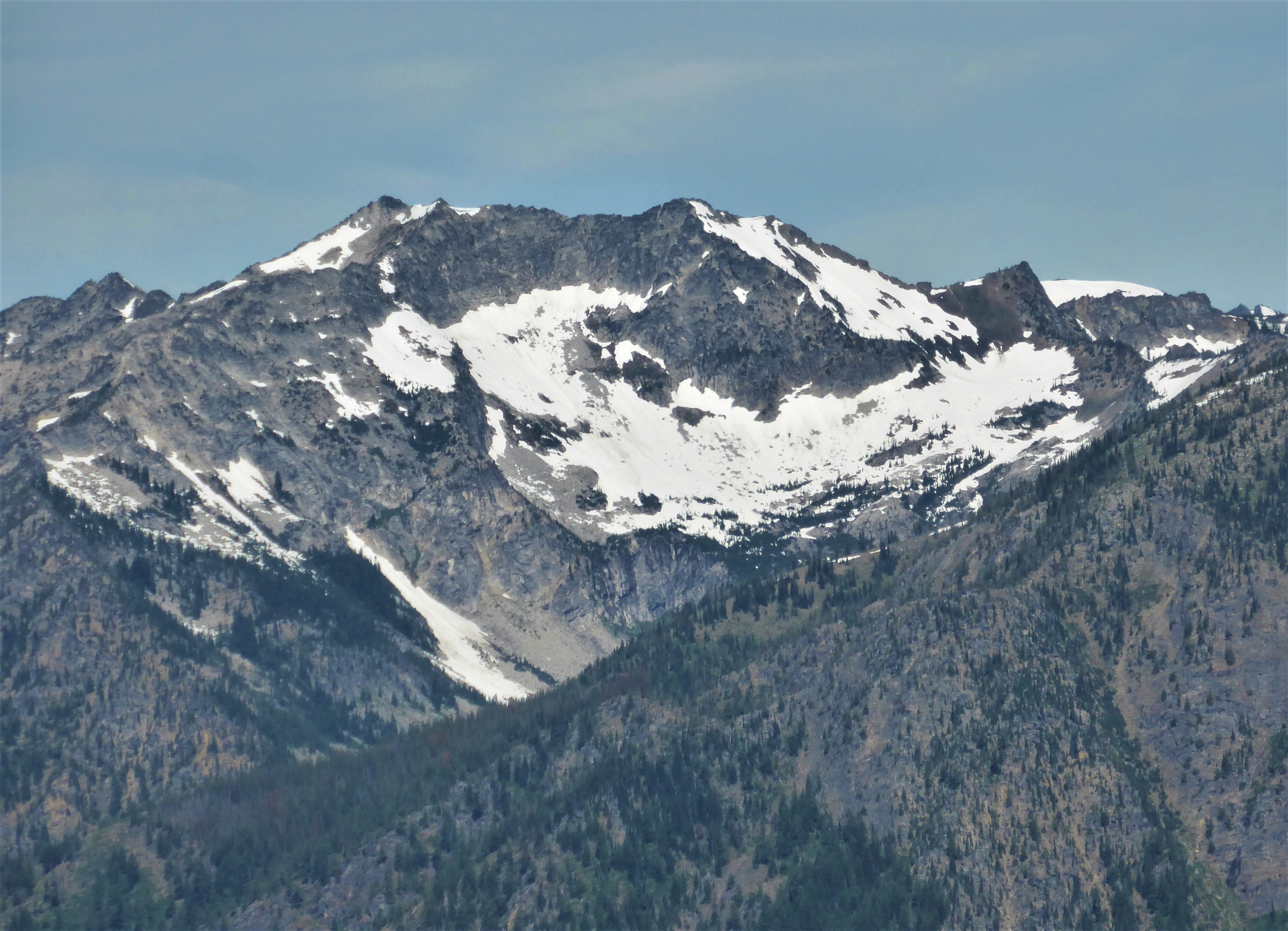 Grindstone Mountain from Point 7029 on Icicle Ridge. Camera pointed west-northwest.